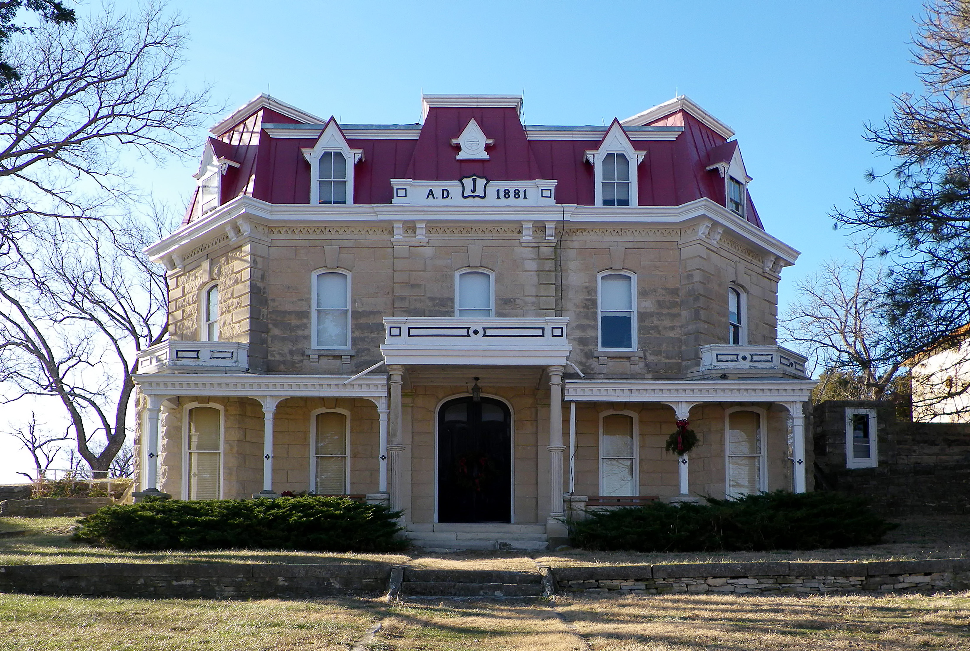 Spring Hill or Z-Bar Ranch near Strong City, Kansas. A National Historic Landmark, now part of the Tallgrass National Preserve.